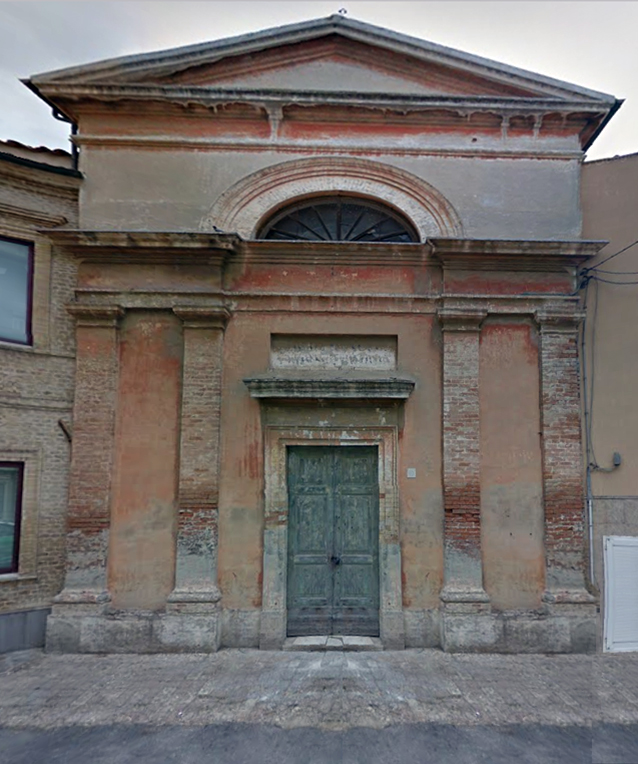 Bedini Church at Senigallia, Italy